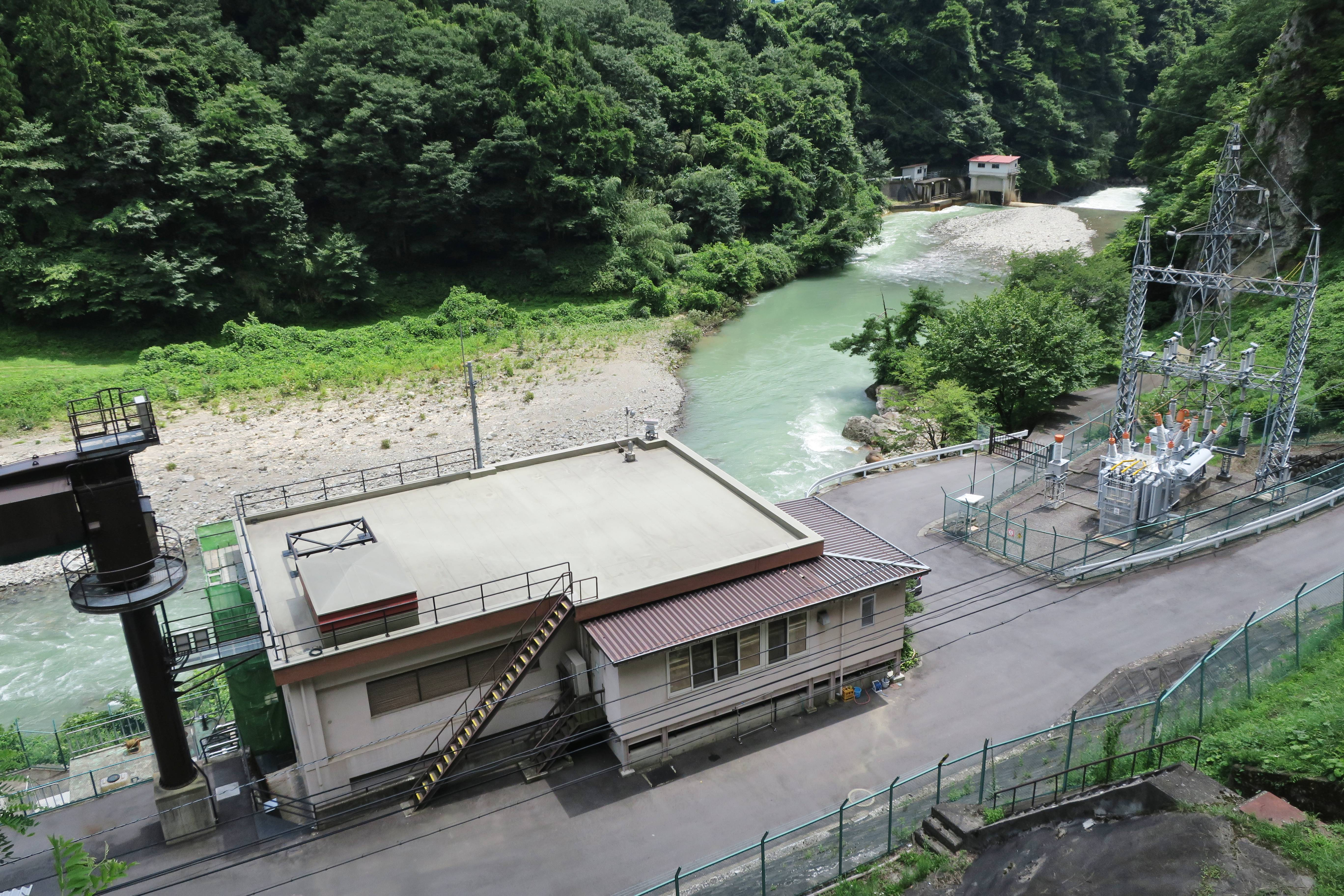 Yukawa Power Station.